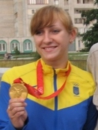 Olha Bohdanivna Zhovnir, Olympic champion for Ukraine in fencing.